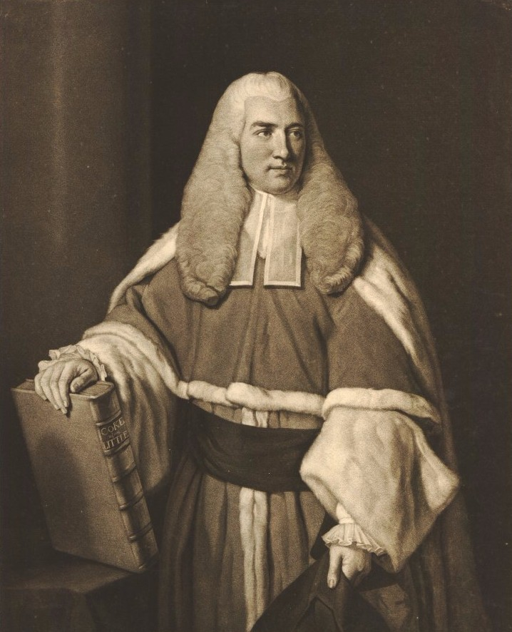 Portrait of Beaumont Hotham, 2nd Baron Hotham (1737–1814), Scottish judge and politician.